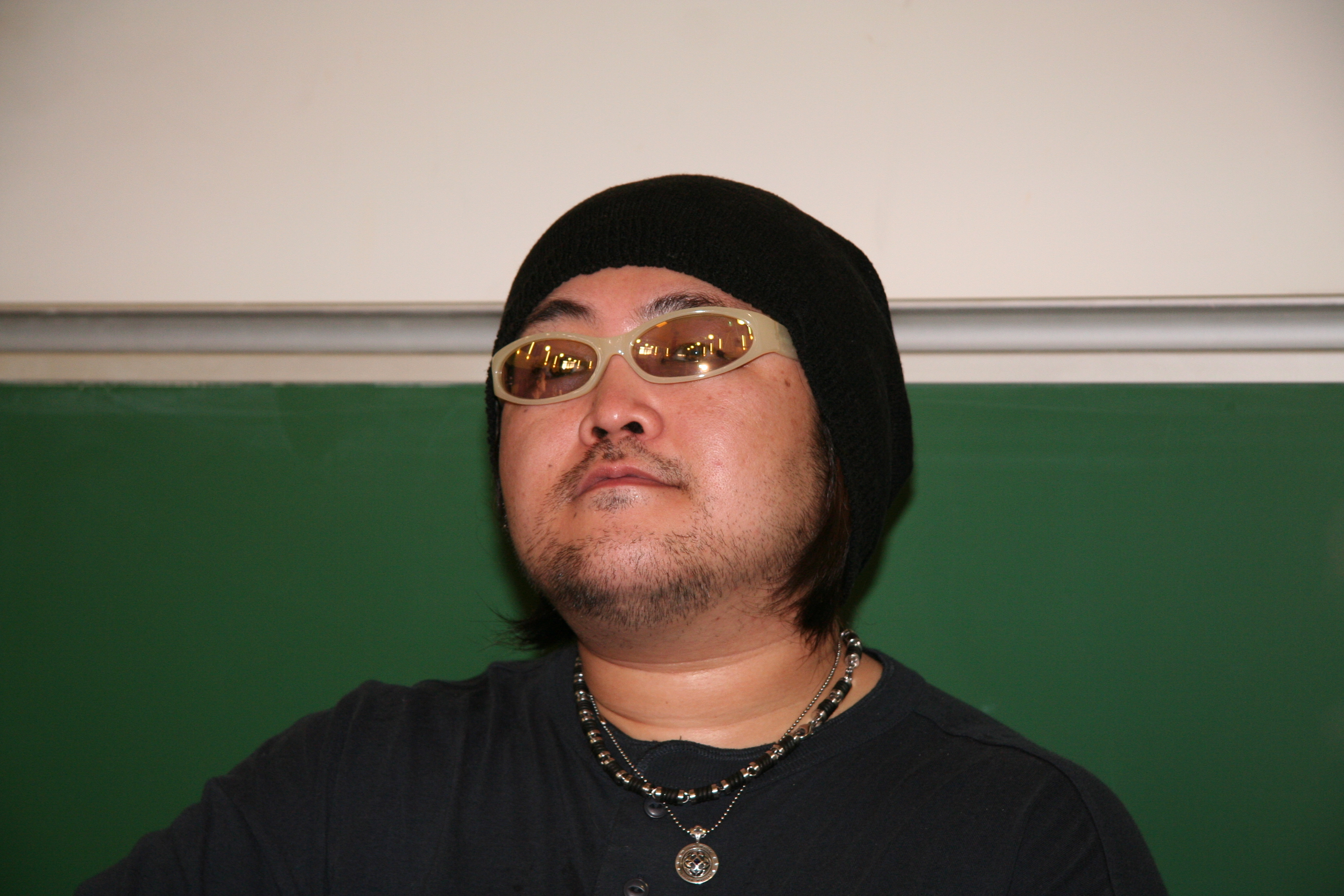 Autograph session with Range Murata at Epitanime 2008 (Paris, France).